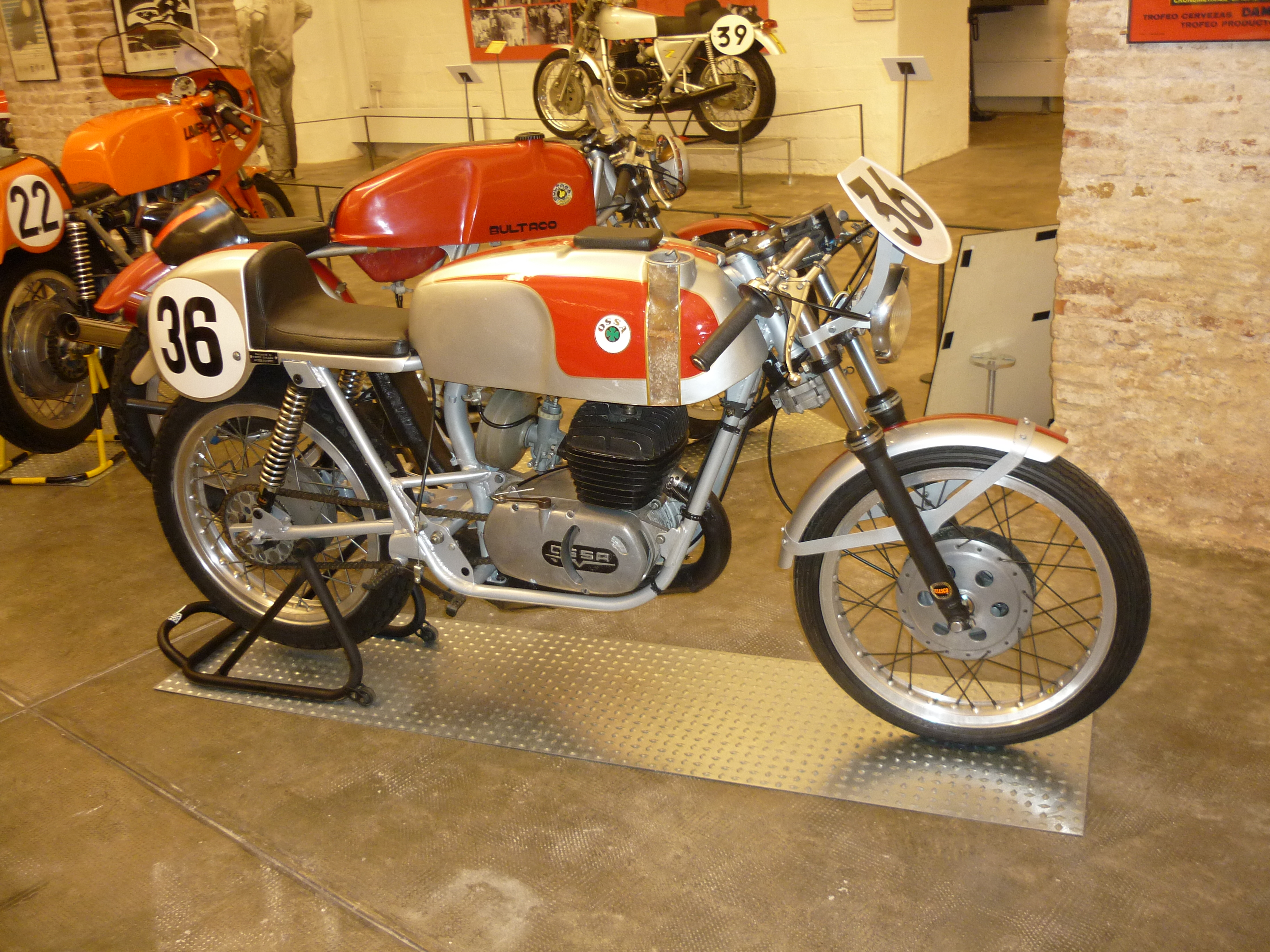 OSSA 230cc. On this bike, Carles Giró and Luis Yglesias won the XIII 24 Hours of Montjuïc, on 1967